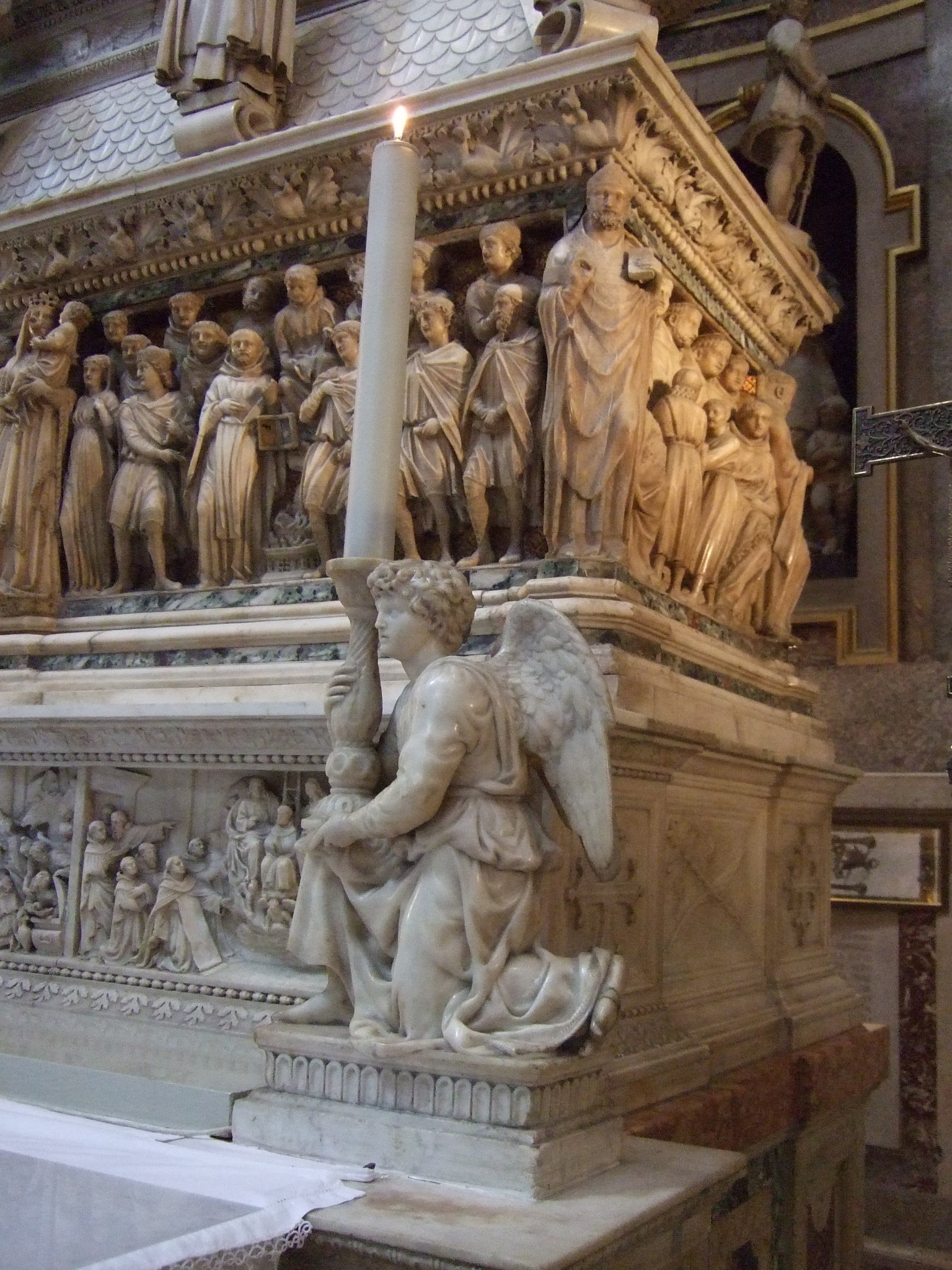 Angel (1494) by Michelangelo on the Shrine of Saint Dominic, Basilica of Saint Dominic, Bologna, Italy